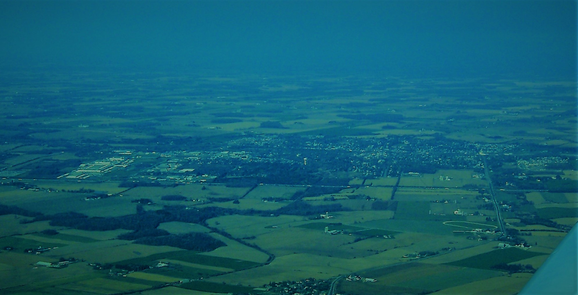 Ingersoll, Ontario